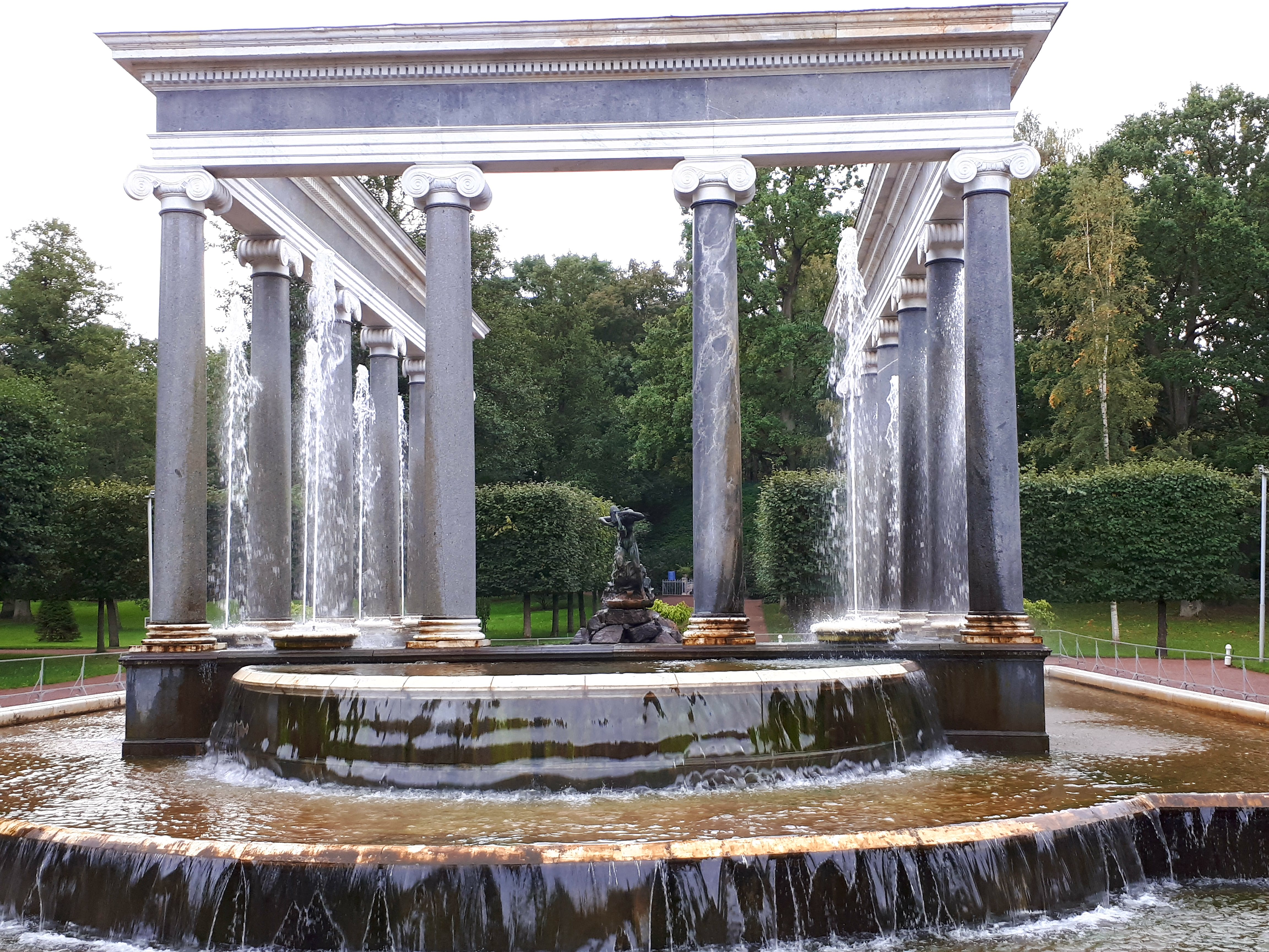 Lion (Hermitage) cascade: the western part of the Lower Park, Peterhof, Petrodvortsovy district, St. Petersburg